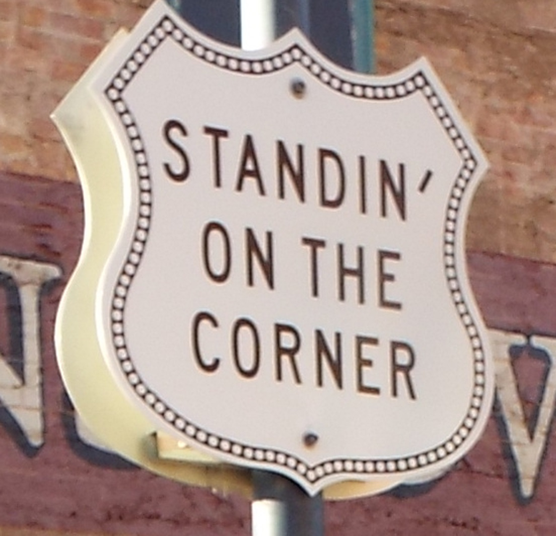 “Standing on the Corner” sign in Winslow, Aizona.